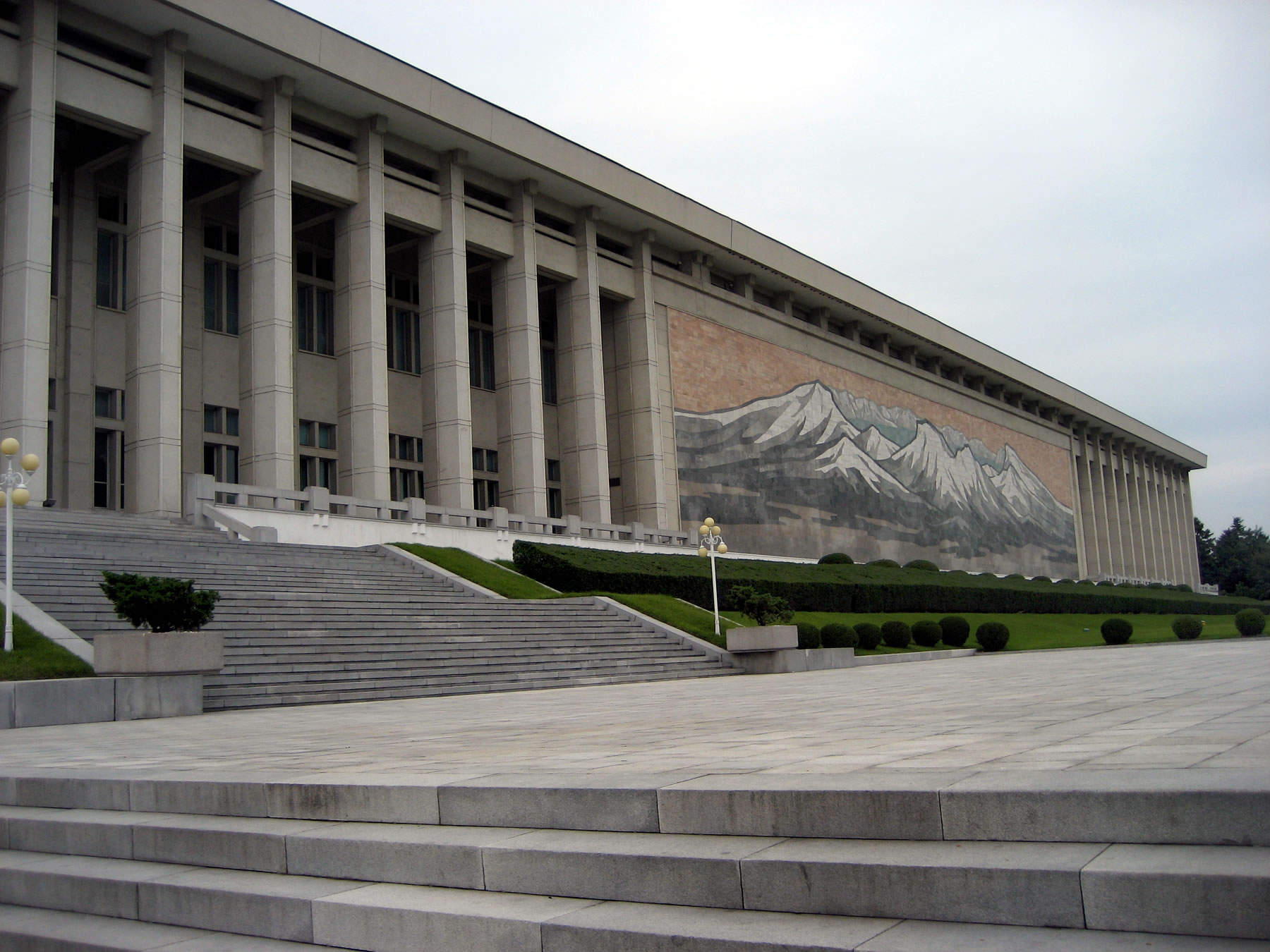 Korean Revolution Museum The Korean Revolution Museum in Pyongyang is dedicated to the struggle against Japanese colonialism.